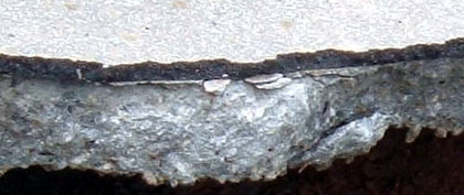 Cross-section of a roadway made up of concrete and asphalt